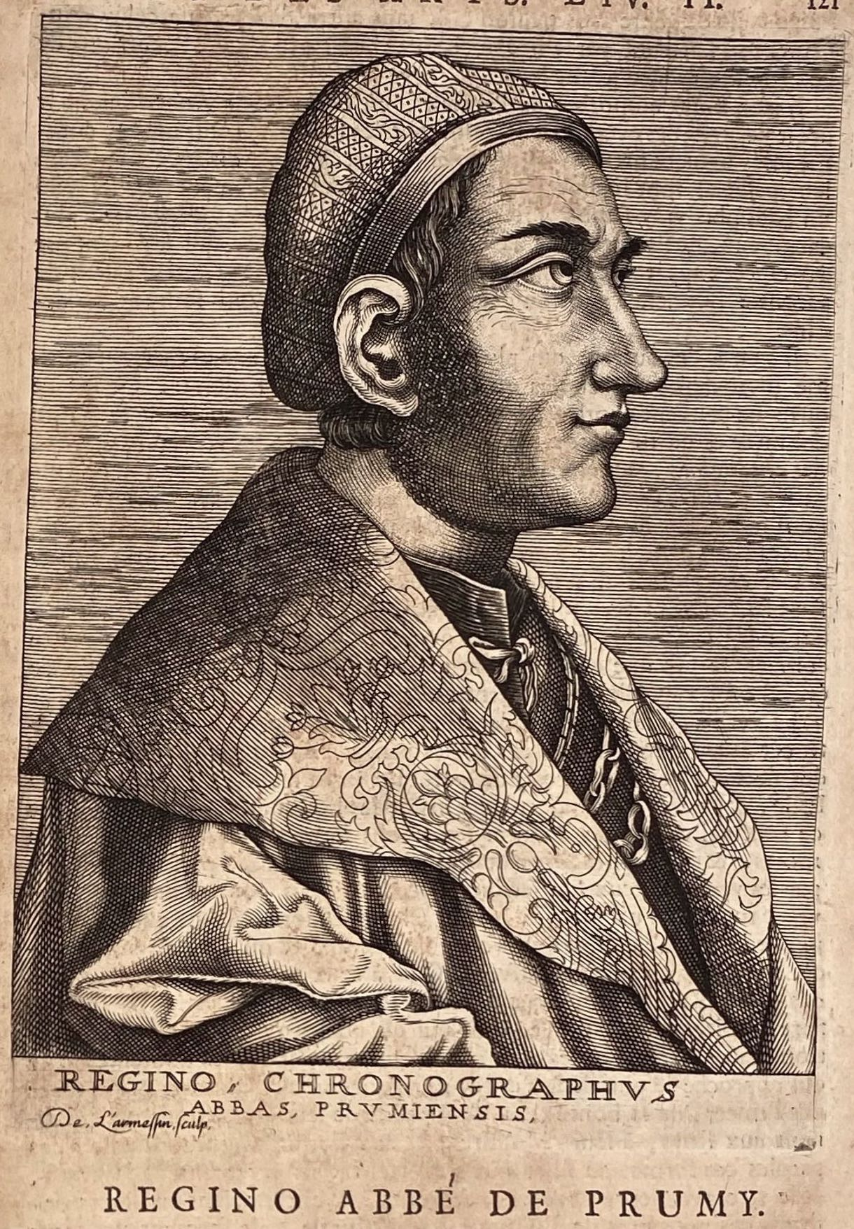 Half-length portrait of Réginon de Prüm, abbot, facing to the right. Engraved by Nicolas de Larmessin. Isaac Bullart. Académie Des Sciences Et Des Arts. - Amsterdam: Elzevier, 1682.